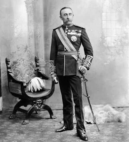 Earl of Minto - Governor-General of Canada (1898-1904)